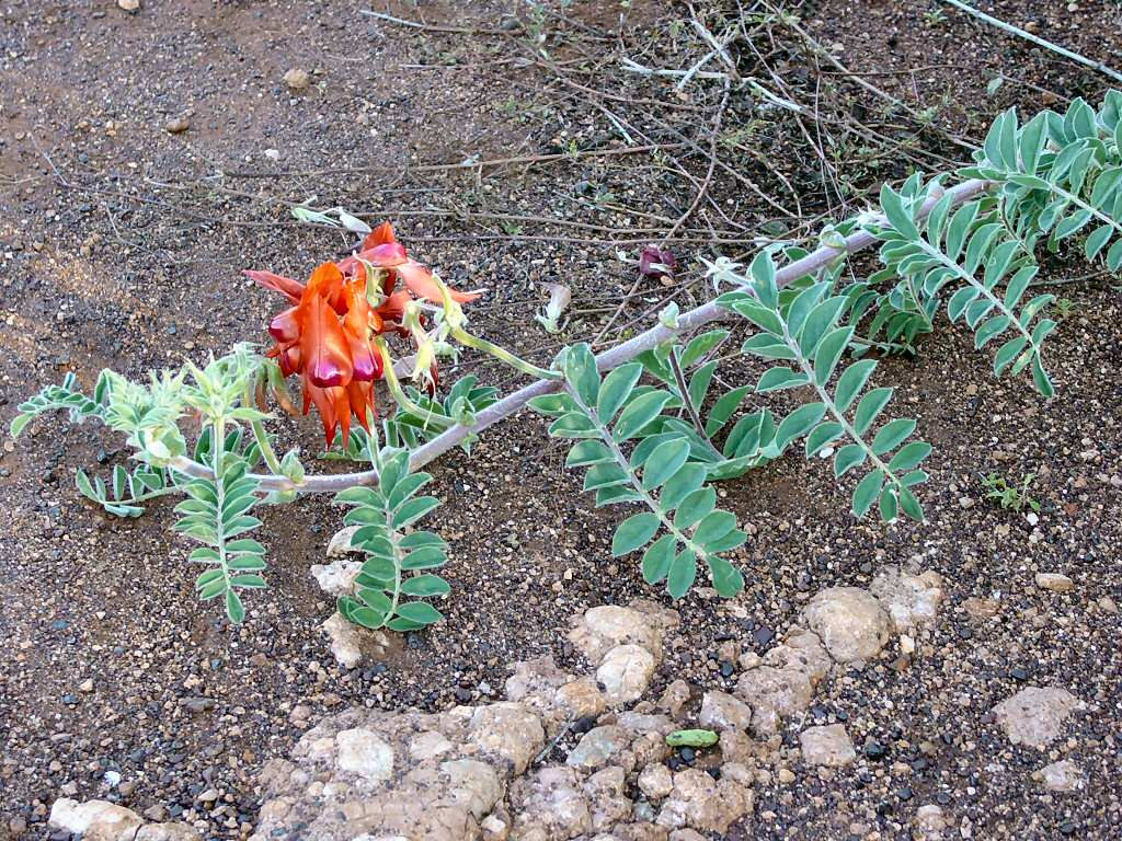 A Sturts Desert Pea (Swainsona formosa) variety which grows in the northern parts of Western Australia.